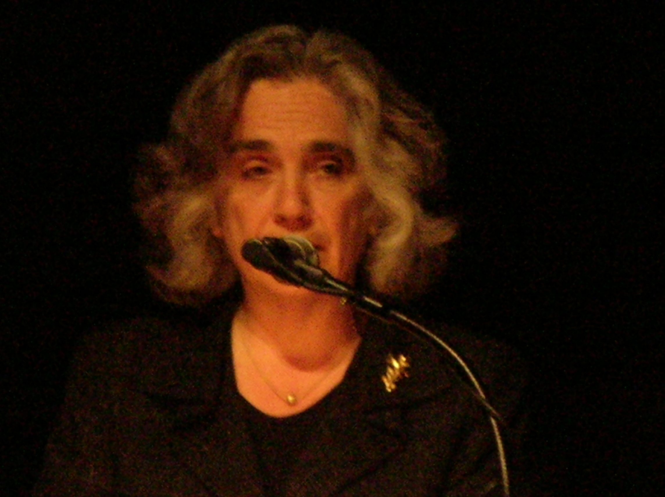 Persis Drell introduces Nobel Laureate in Physics Burton Richter at Stanford University as part of the Stanford Pioneers in Science series. Richter was the featured pioneer for March.